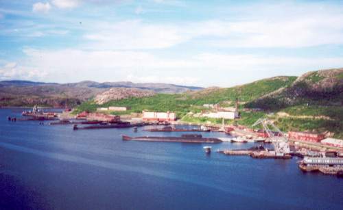 Russian closed town Zaozersk. Bay Zapadnaya Litsa, Naval base of Russian Navy. In the center there is Oscar-II class SSGN, to the left there is another one of the same type. To the right there is a Victor-III class SSN.